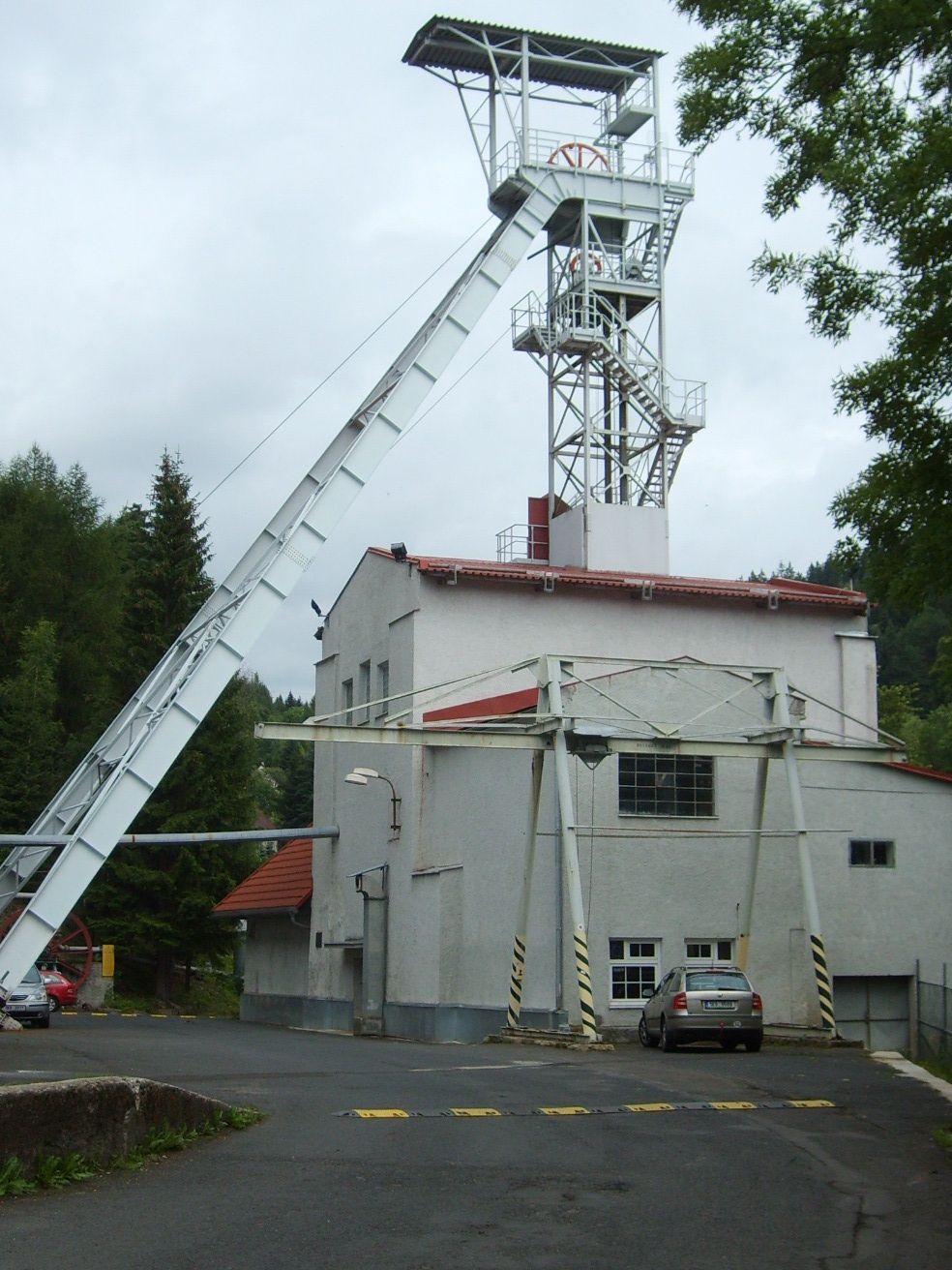 Old metal mine "Concorde" - Svornost est. 1530. There were mined cobalt, nickel, bismuth, arsen, radium and uranium. Today under the management of Jáchymov radium Spa, which pump there radioactive water to cures.